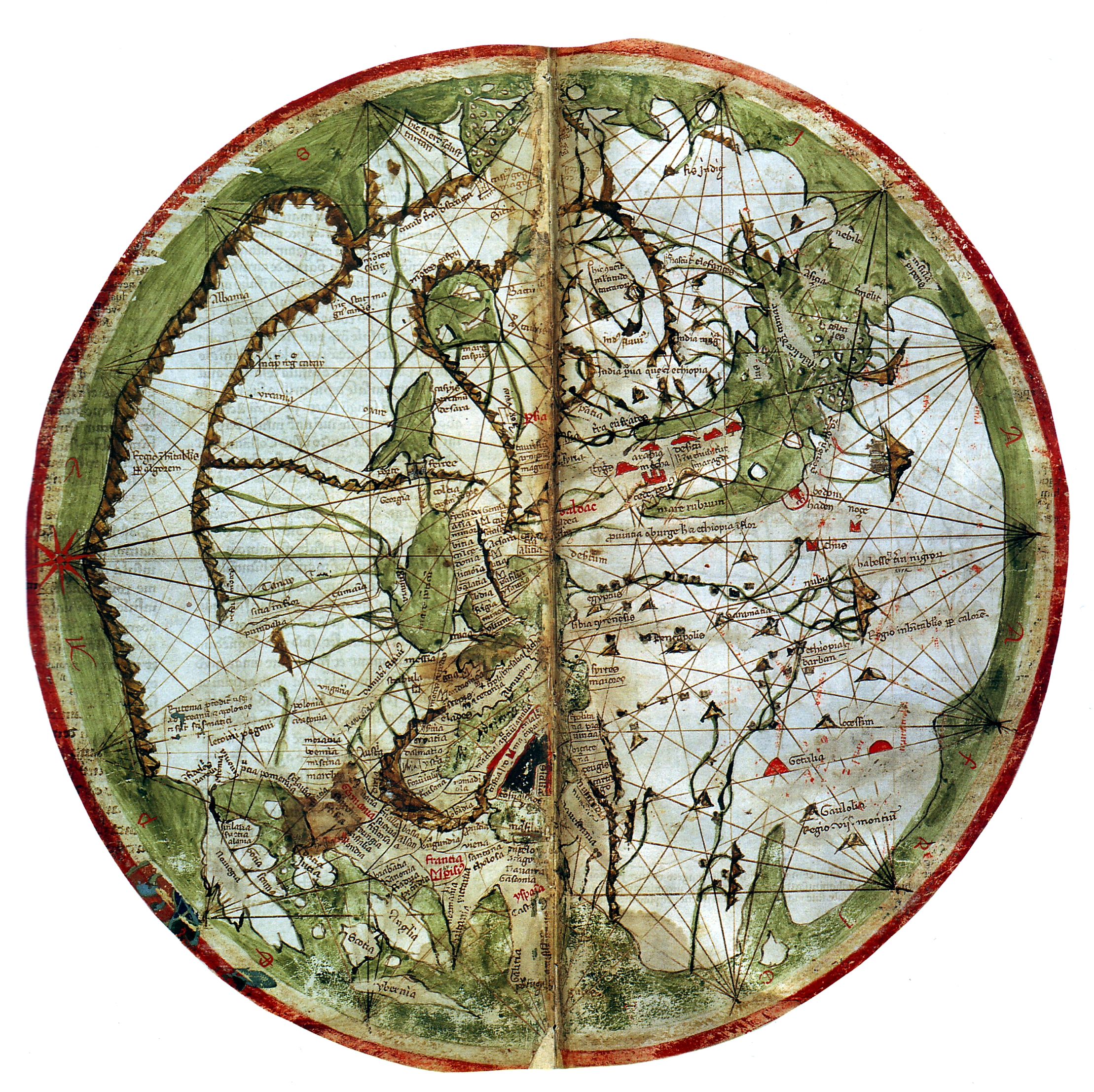 World map ol Pietro Vesconte. 35 cm.